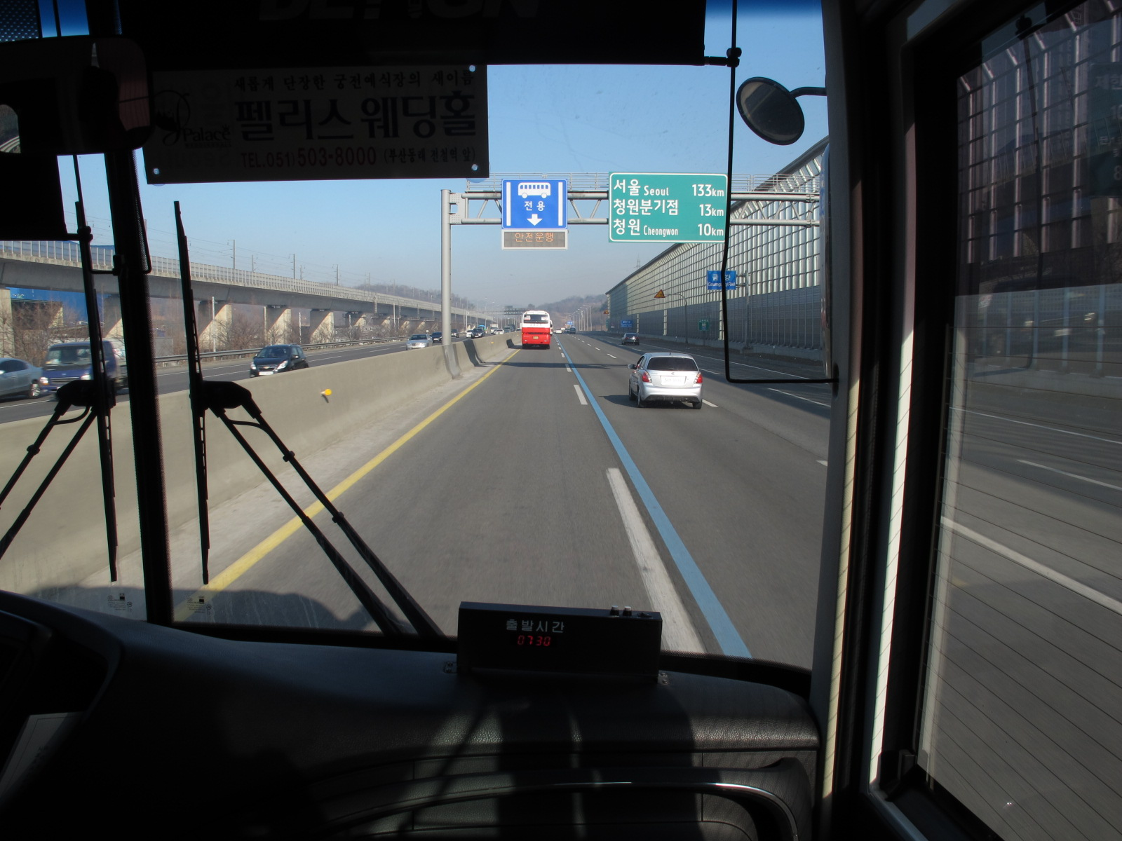 Bus only lane on highway in Korea (taken at Singal JC, Gyeongbu Expressway, Korea)